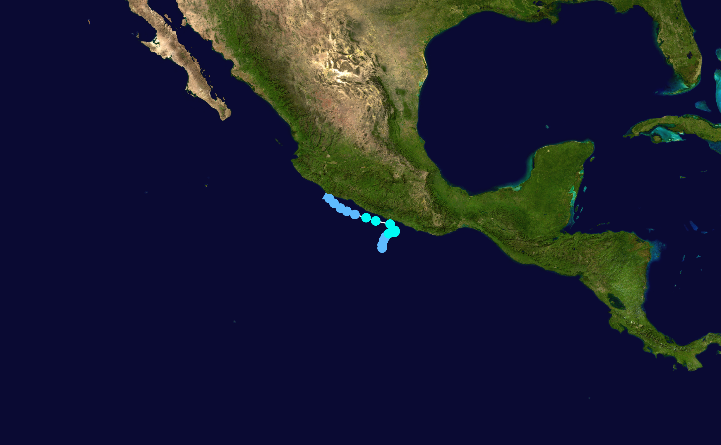 Track map of Tropical Storm Carlotta of the 2018 Pacific hurricane season. The points show the location of the storm at 6-hour intervals. The colour represents the storm's maximum sustained wind speeds as classified in the Saffir–Simpson scale (see below), and the shape of the data points represent the nature of the storm, according to the legend below. Saffir–Simpson scale Tropical depression≤38 mph≤62 km/h Category 3111–129 mph178–208 km/h Tropical storm39–73 mph63–118 km/h Category 4130–156 mph209–251 km/h Category 174–95 mph119–153 km/h Category 5≥157 mph≥252 km/h Category 296–110 mph154–177 km/h Unknown Storm type Tropical cyclone Subtropical cyclone Extratropical cyclone / Remnant low / Tropical disturbance / Monsoon depression